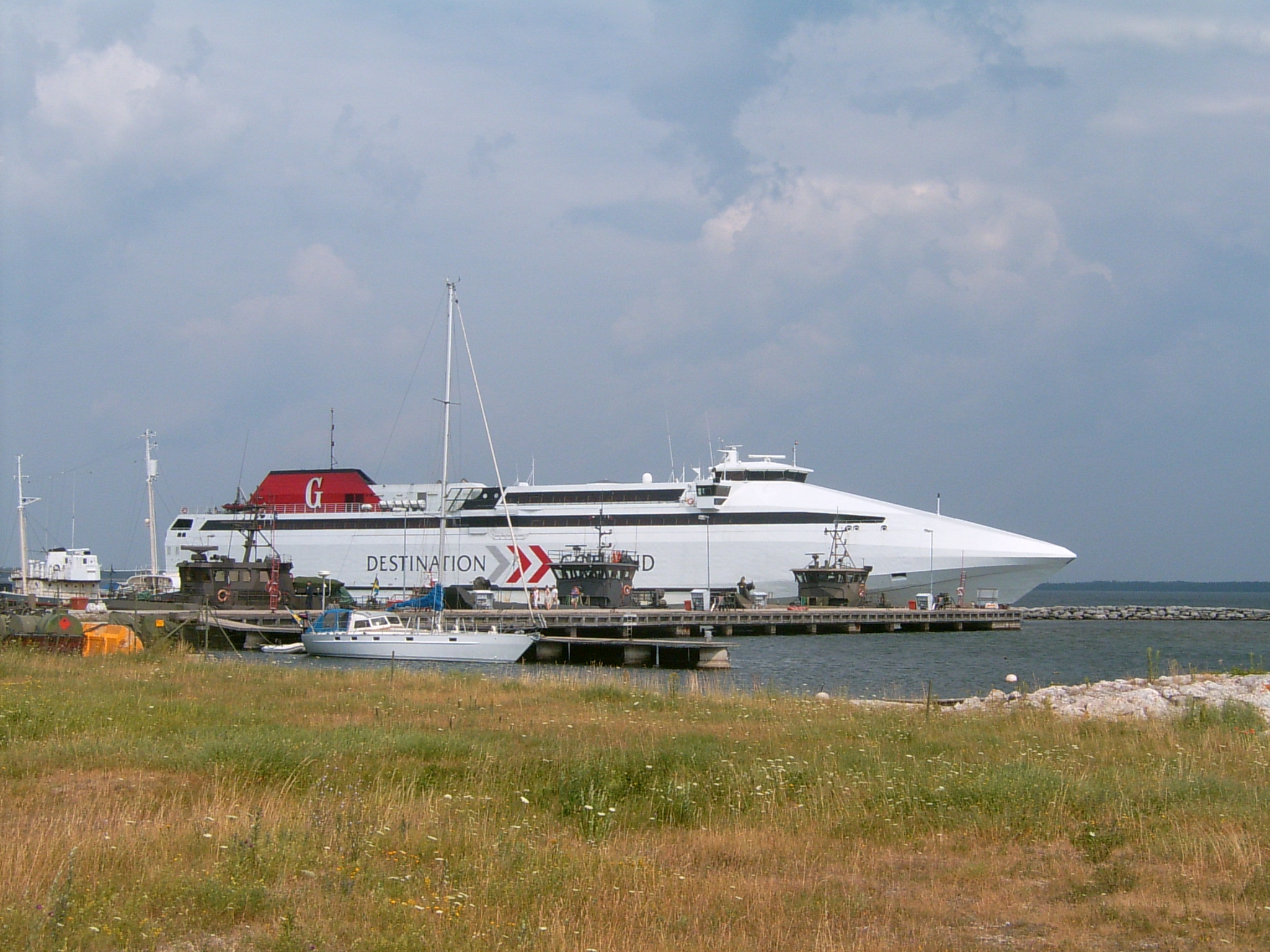 HSC Gotlandia in Fårösund, northern Gotland, Sweden.